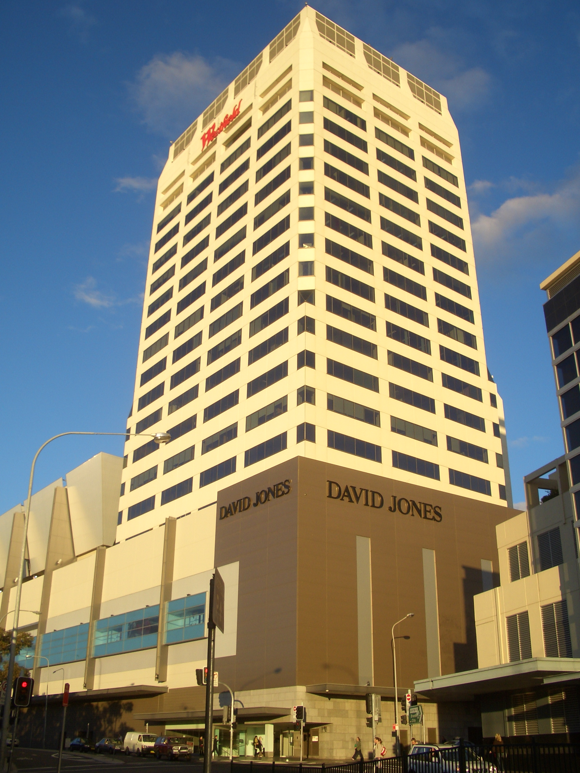 Westfield Bondi Junction, Grafton Street